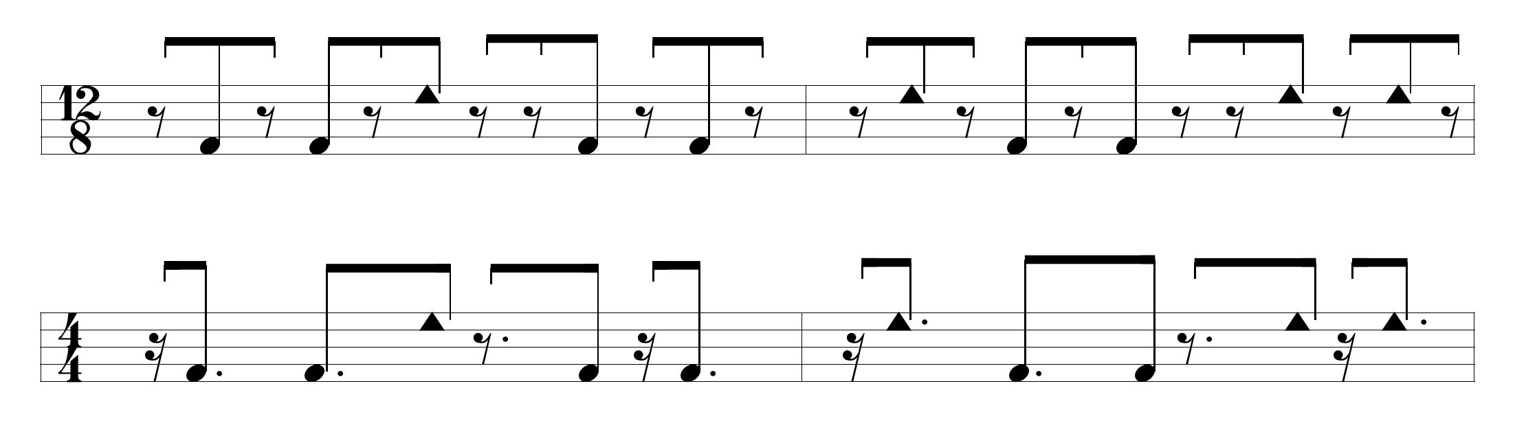 refined version of example showing alternating tone-slap quinto lock